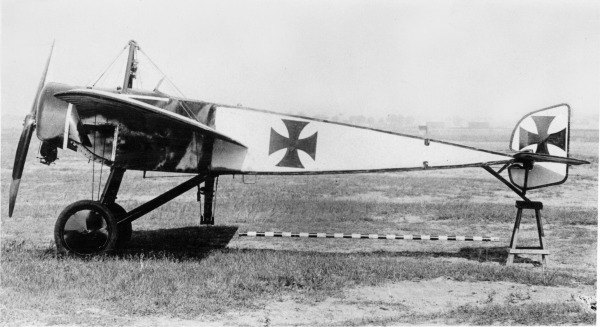 PictionID:43637994 - Catalog:16_004567 - Title:Pfalz E.I - Filename:16_004567.TIF - - - - - - - Image from the Ray Wagner Collection. Ray Wagner was Archivist at the San Diego Air and Space Museum for several years and is an author of several books on aviation --- ---Please Tag these images so that the information can be permanently stored with the digital file.---Repository: San Diego Air and Space Museum